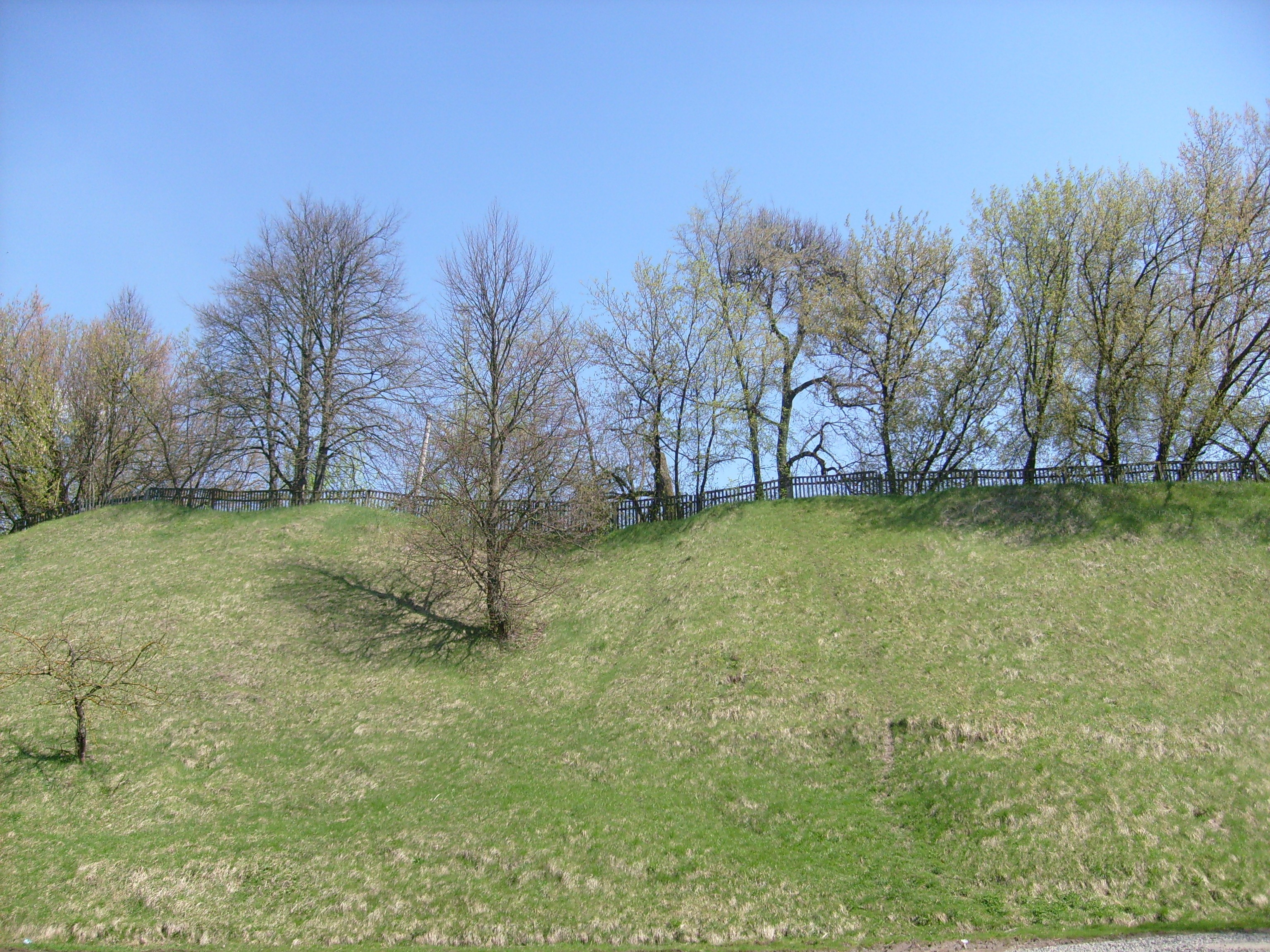 Castle hill town of Krichev, Belarus. South-West side